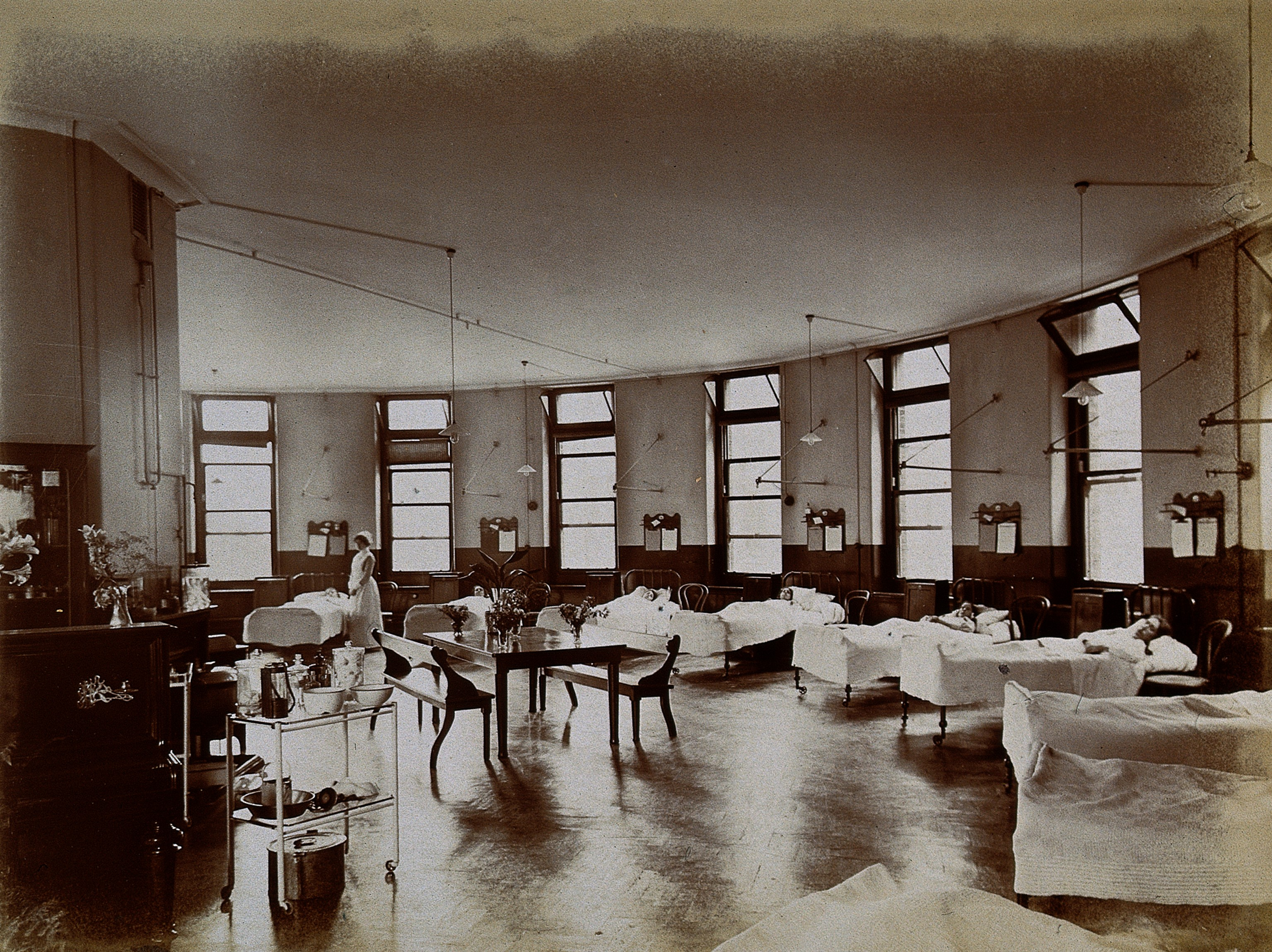 Great Northern Central Hospital, Holloway Road, London: ward 5 (the right section of a circular ward). Photograph, 1912. Iconographic Collections Keywords: Great Northern Central Hospital (London, England)